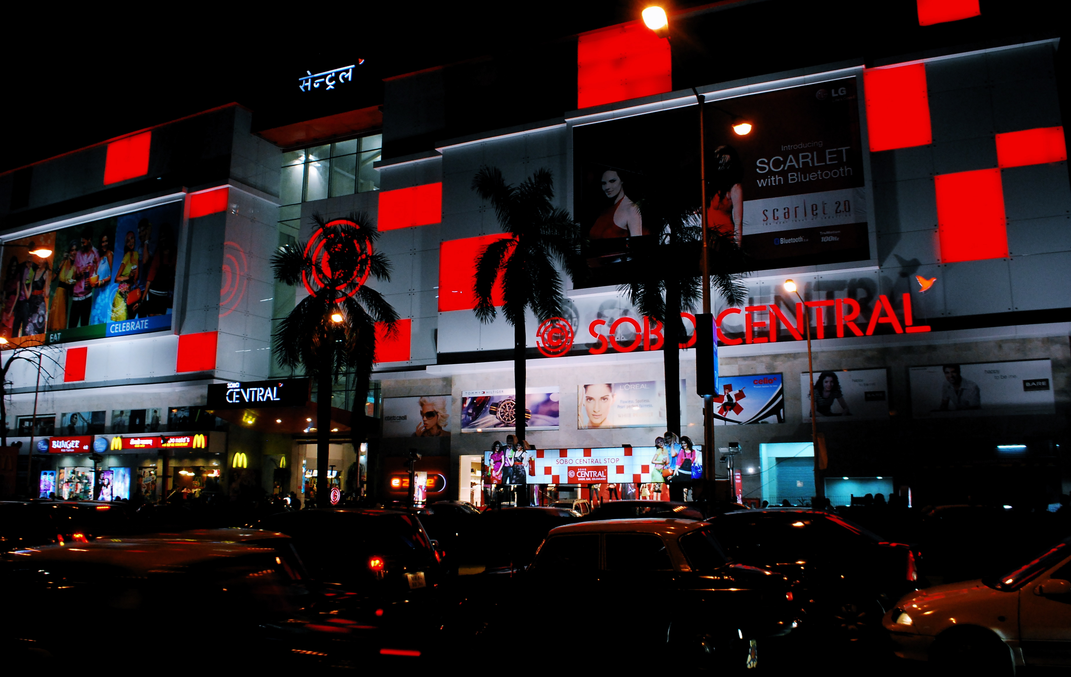 The SoBo Central mall at Haji Ali, Mumbai.